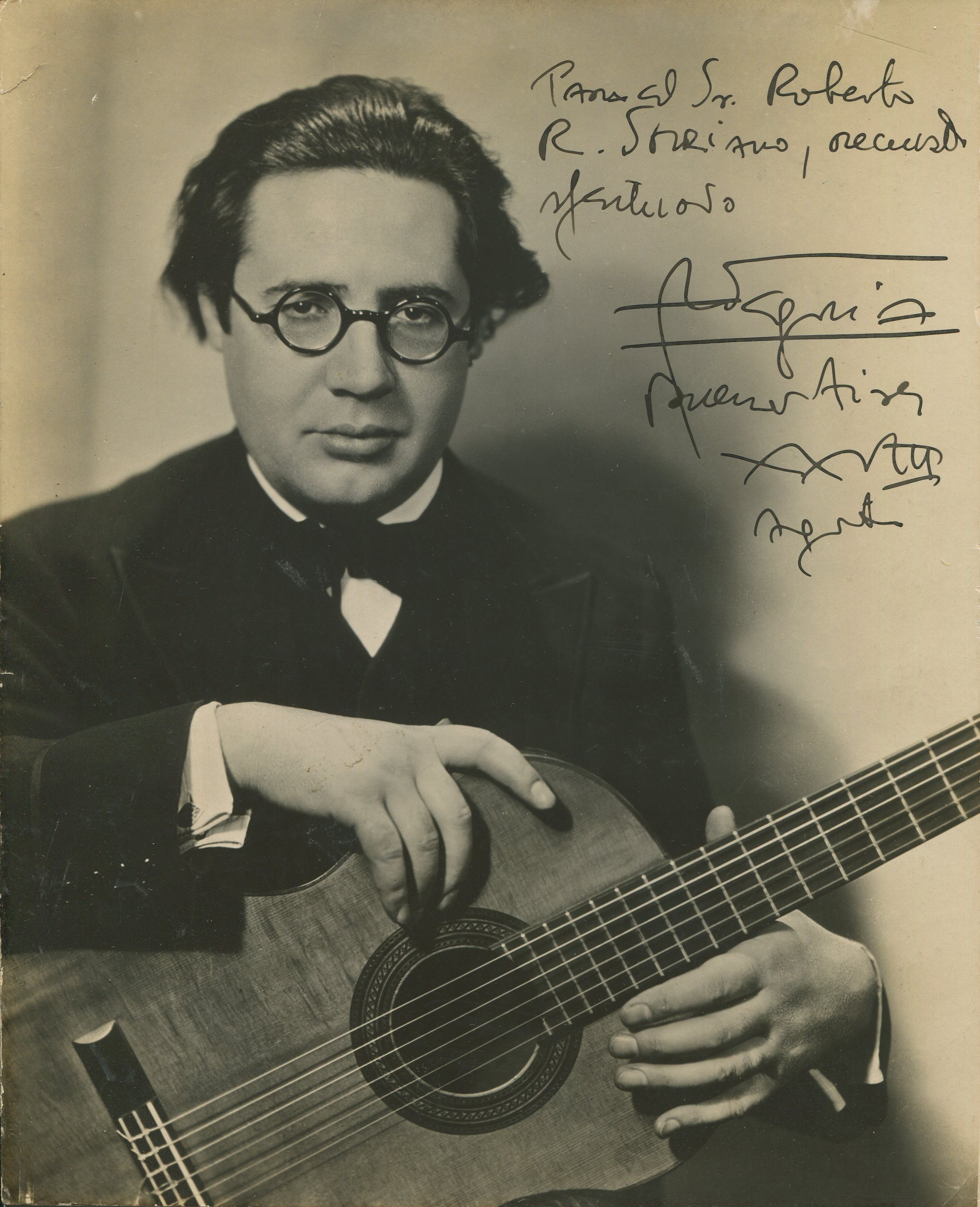 Dedication: To Robert R Soriano affectionate remembrance. A. Segovia - Buenos Aires